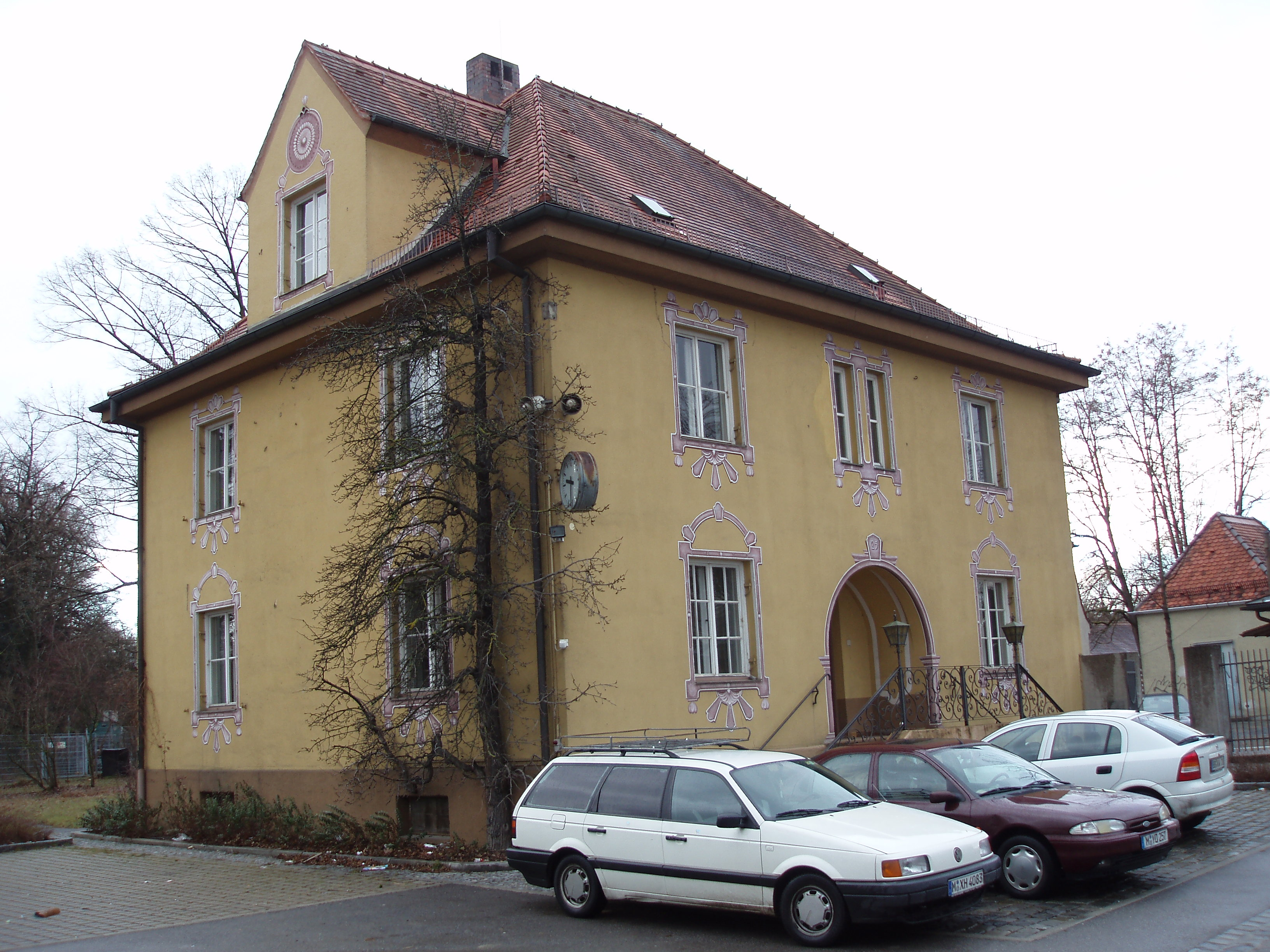 Munich municipal waste disposal company, former Directors villa